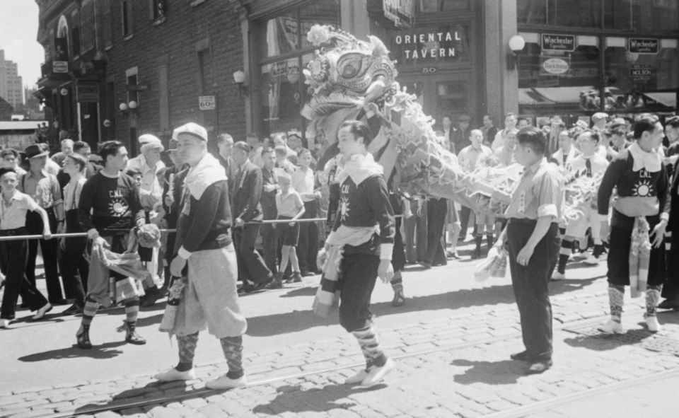 We see, during a parade on Clark Street in Chinatown, members of the Chinese community in traditional costume wearing a paper dragon. We notice billboards in the background.